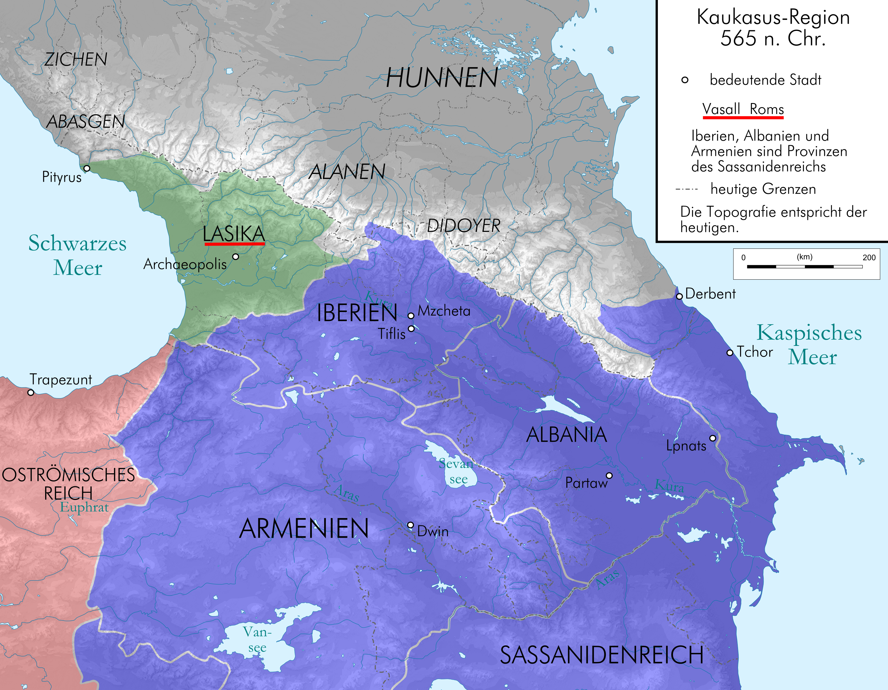 Map of Caucasus around 565 AC in German.